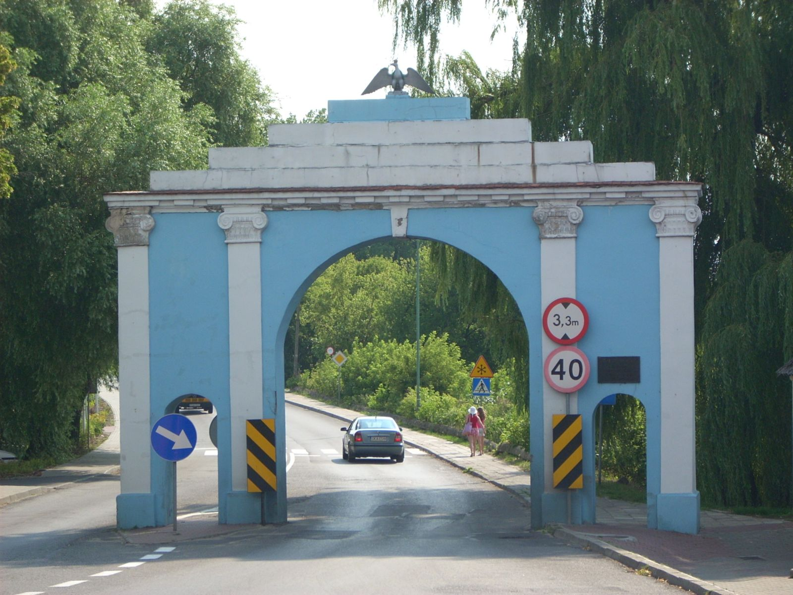 Napoleon's Gate in Slesin